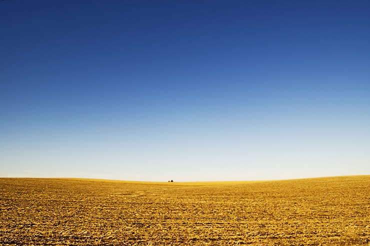 View of the Great Plains near Lincoln, Nebraska, U.S.